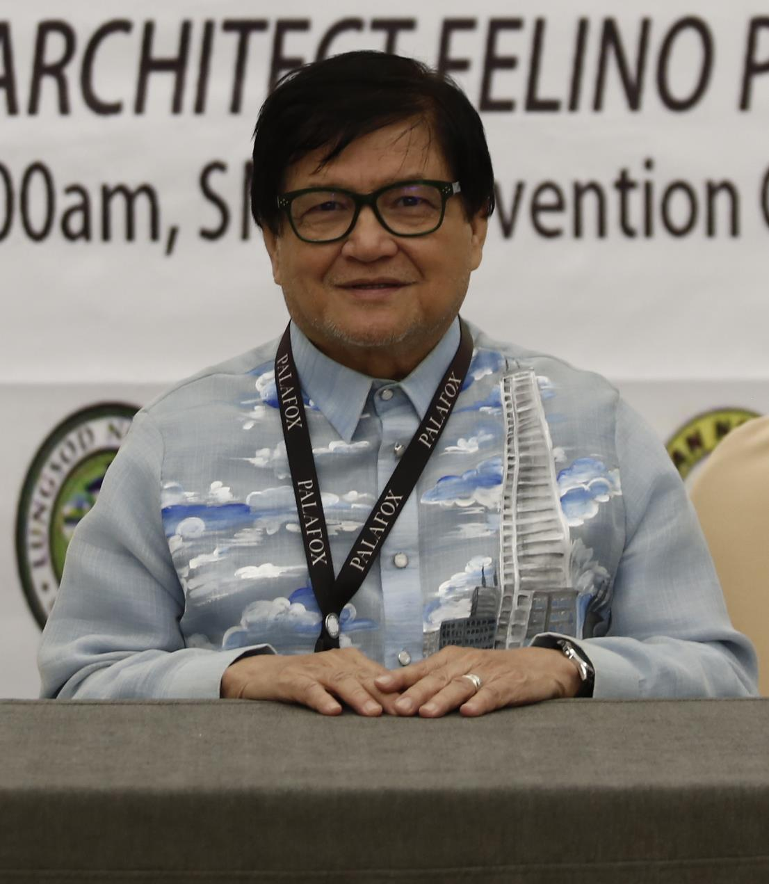 Felino Palafox, Jr. in the First Public Consultation for the Metro Davao Urban Master Plan.